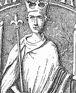 Cropped version of the royal seal of Waldemar II the Victorious of Denmark